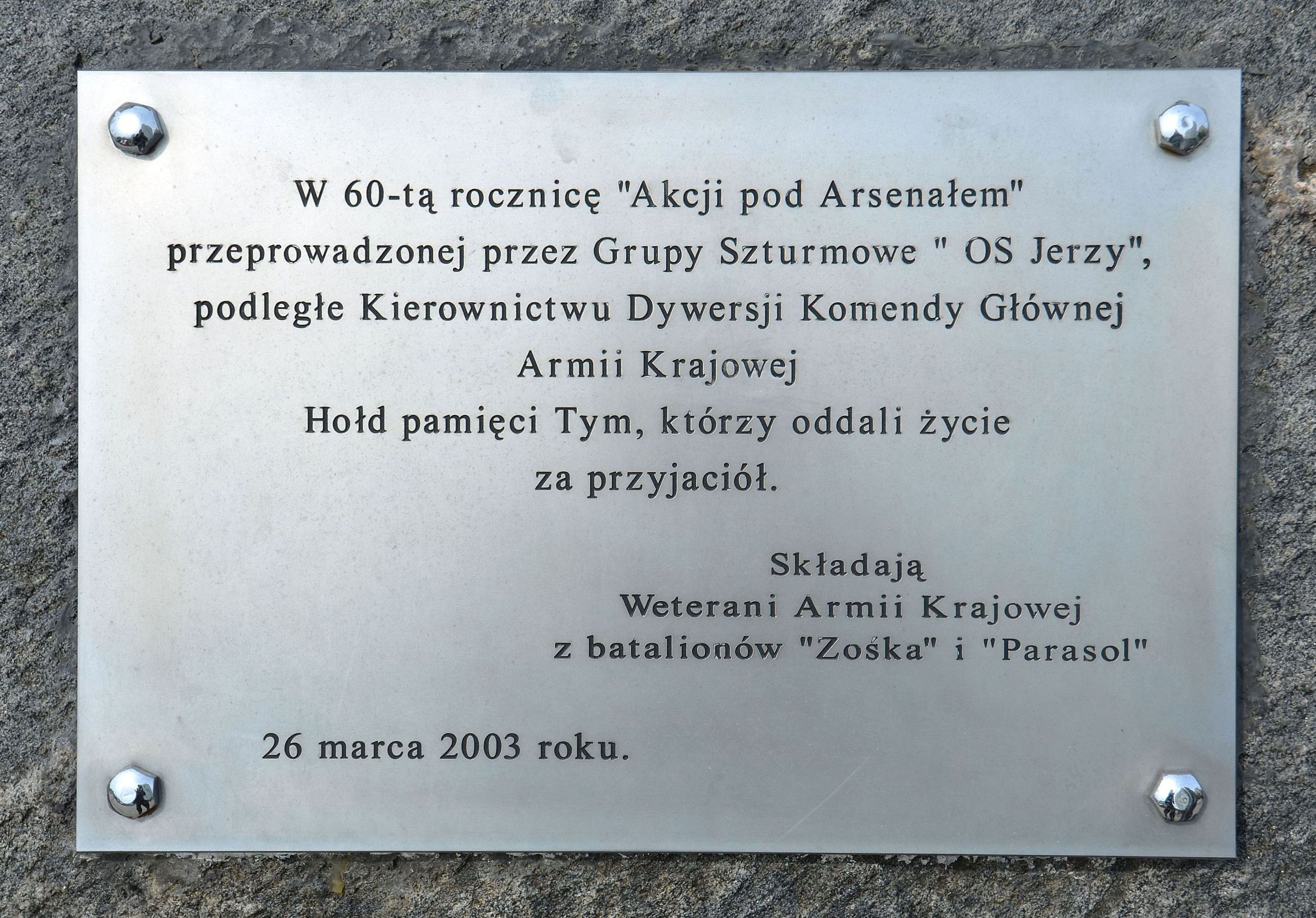 Plaque on the obelisk commemorating Operation Arsenal at 52 Długa Street in Warsaw